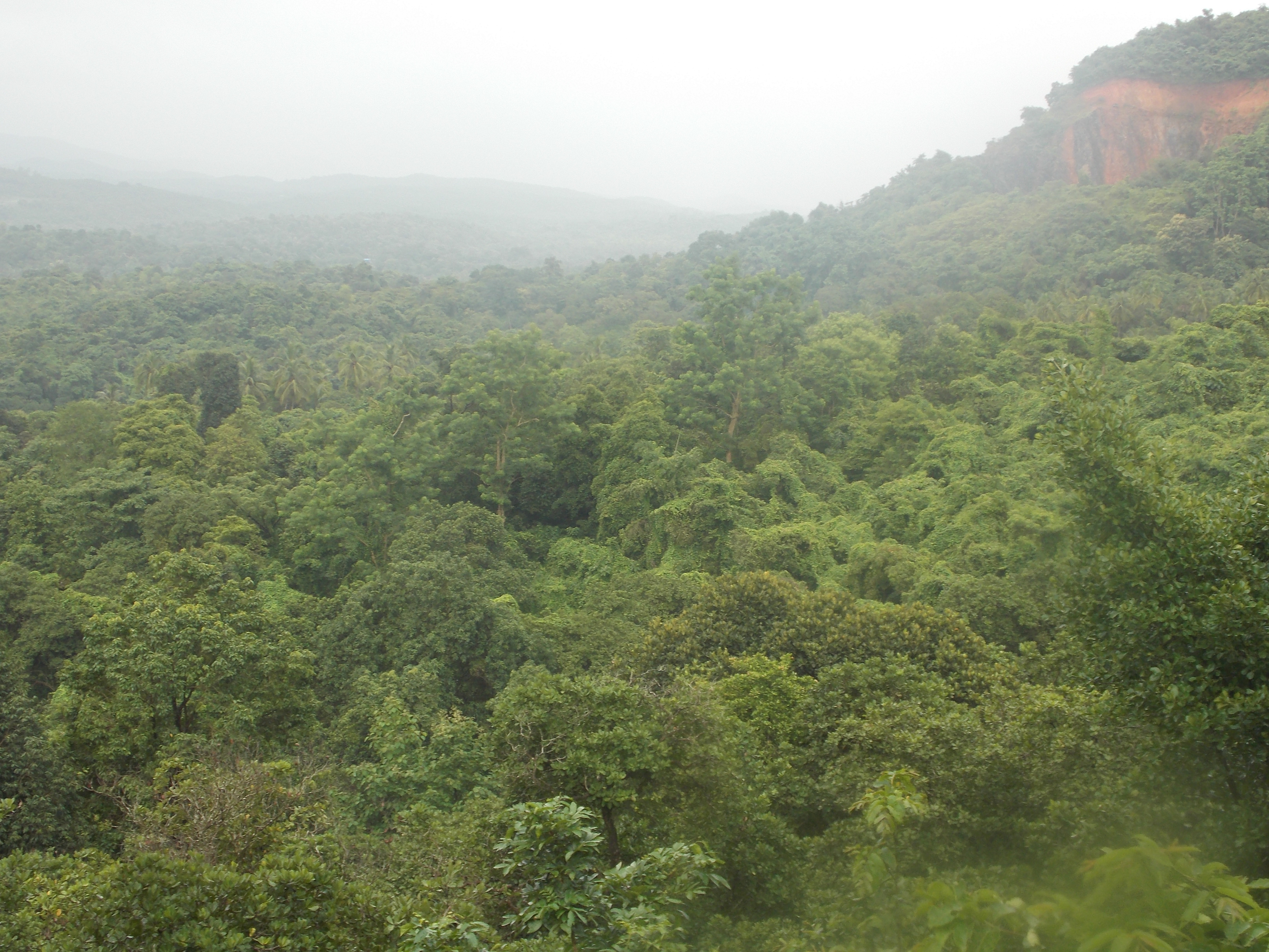 Area rich in biodiversity